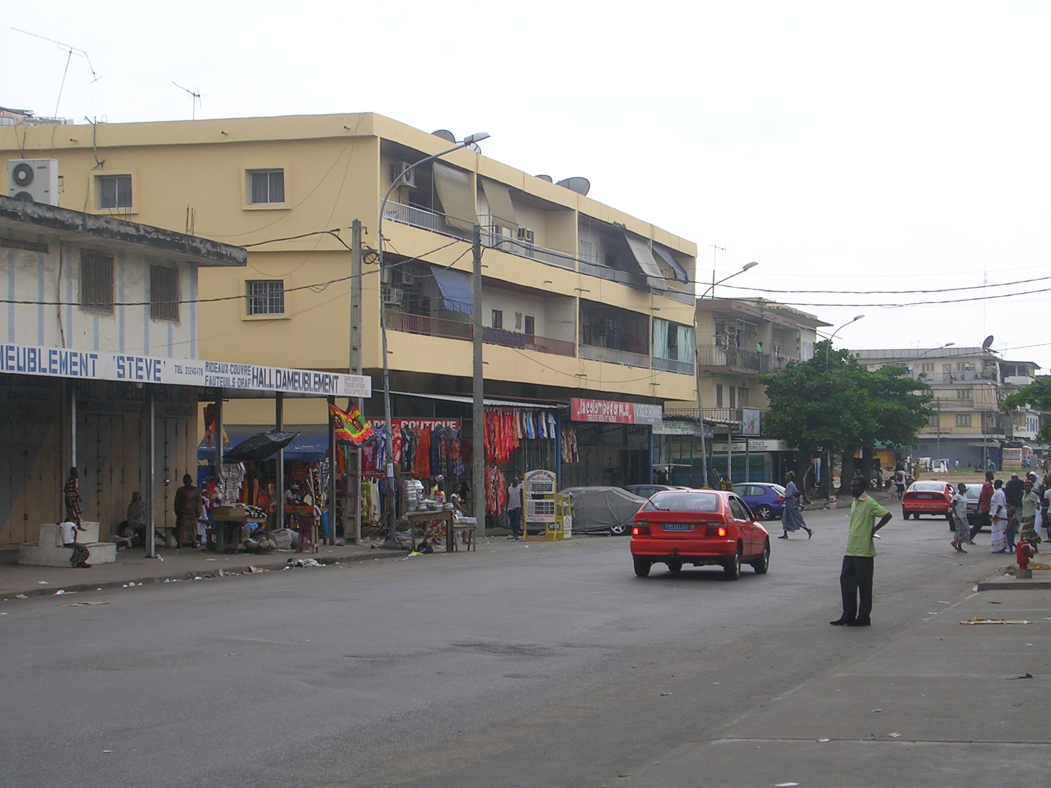 Abidjan. One of the streets in the city